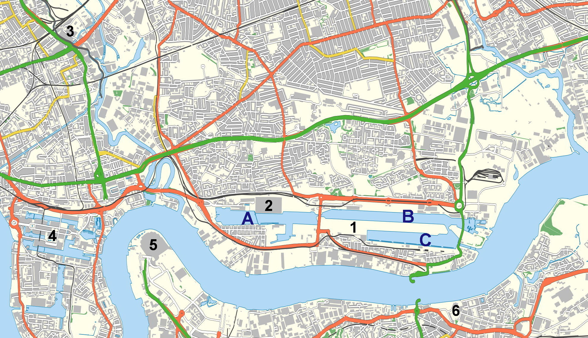 Location map of the southern part of the London Borough of Newham with the following information shown: Ward boundaries Motorways Primary routes Non-primary A roads B roads Minor roads Railways Water Woodland Buildings